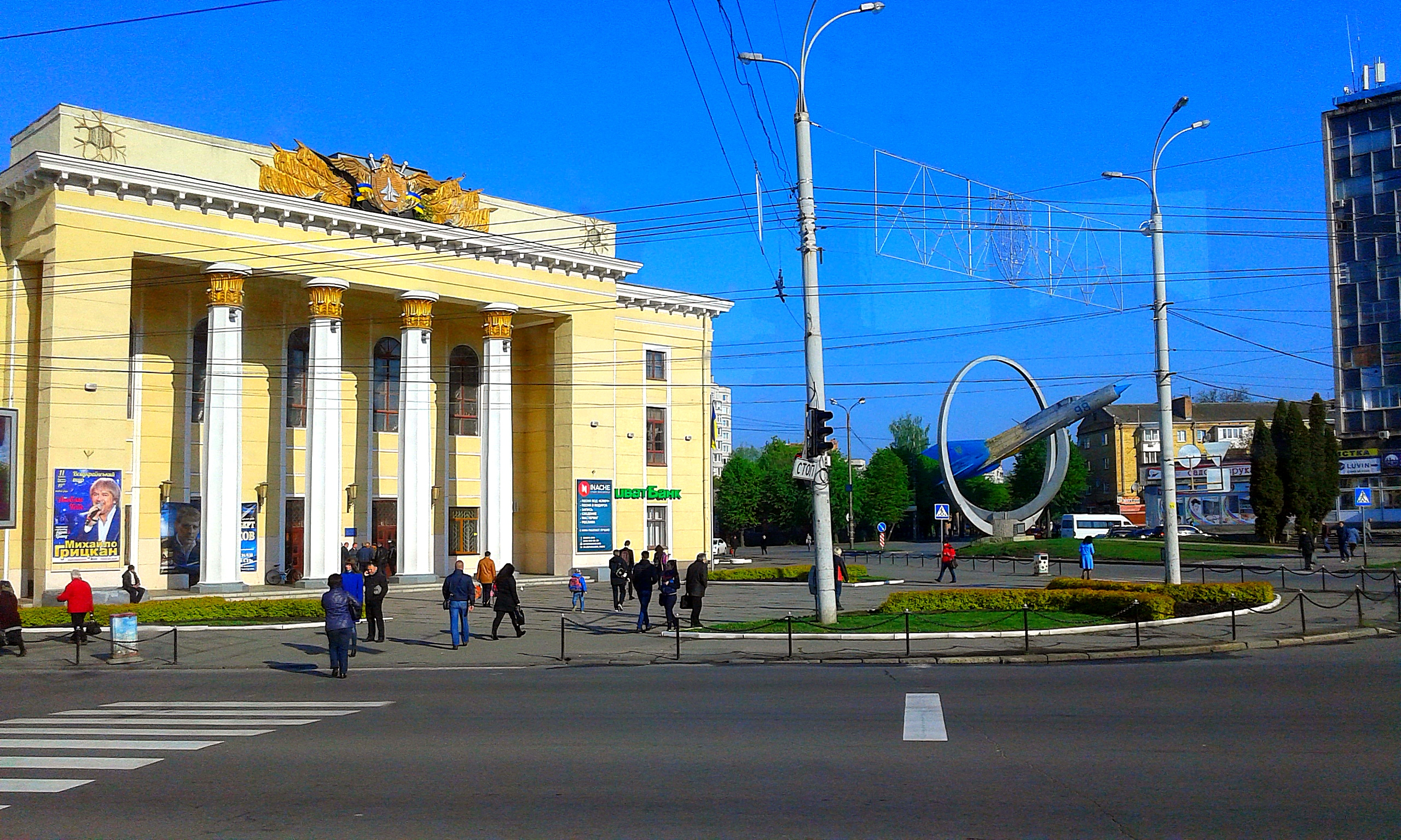 (5) UKRAINIAN AVIATION MONUMENT NEAR CONCERT HALL IN CITY OF VINNYTSIA STATE OF UKRAINE PHOTOGRAPH BY VIKTOR O LEDENYOV 20160427